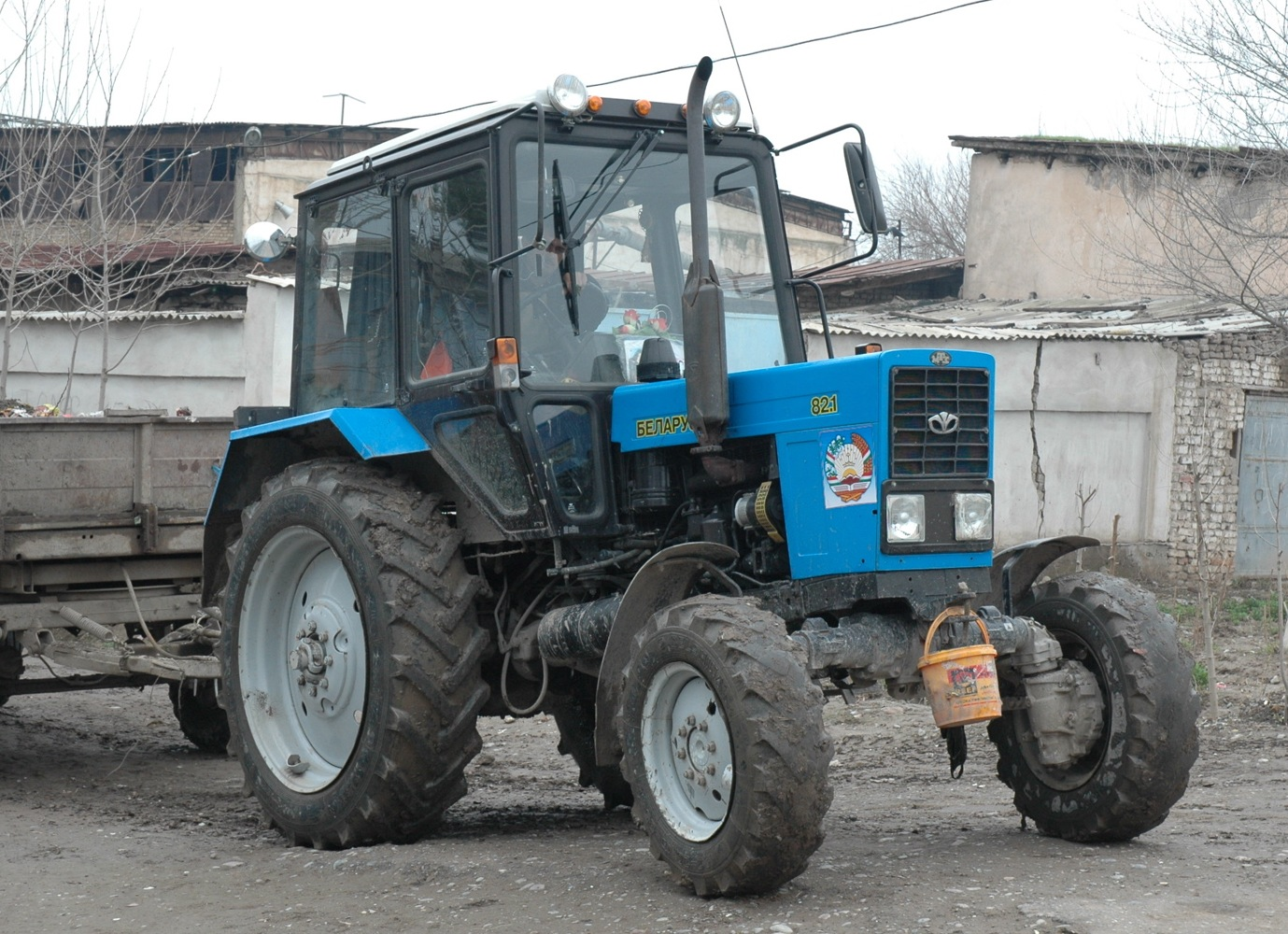 Belarus 82.1 (MTZ-82.1) tractor in Qurgonteppa, Tajikistan